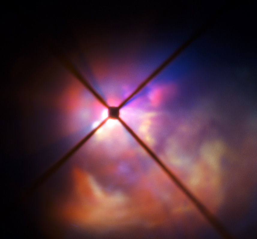 The star VY Canis Majoris is a red hypergiant, one of the largest known stars in the Milky Way. It is 30–40 times the mass of the Sun and 300 000 times more luminous. In its current state, the star would encompass the orbit of Jupiter, having expanded tremendously as it enters the final stages of its life. New observations of the star using the SPHERE instrument on the VLT have clearly revealed how the brilliant light of VY Canis Majoris lights up the clouds of material surrounding it and have allowed the properties of the component dust grains to be determined better than ever before. In this very close-up view from SPHERE the star itself is hidden behind an obscuring disc. The crosses are artefacts due to features in the instrument.